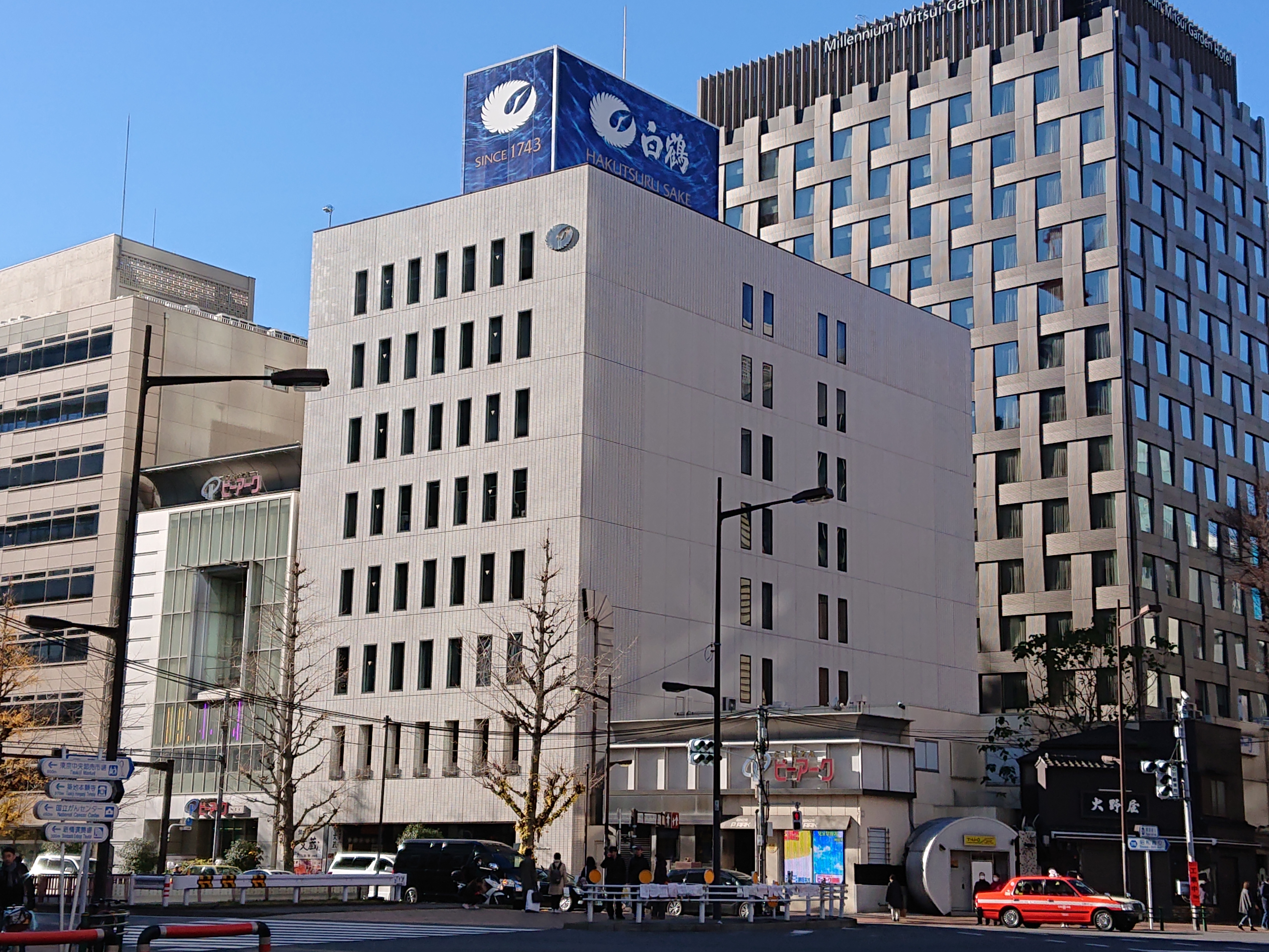 Hakutsuru Building (白鶴ビルディング), located at 5-12-5 Ginza, Chuo, Tokyo, Japan